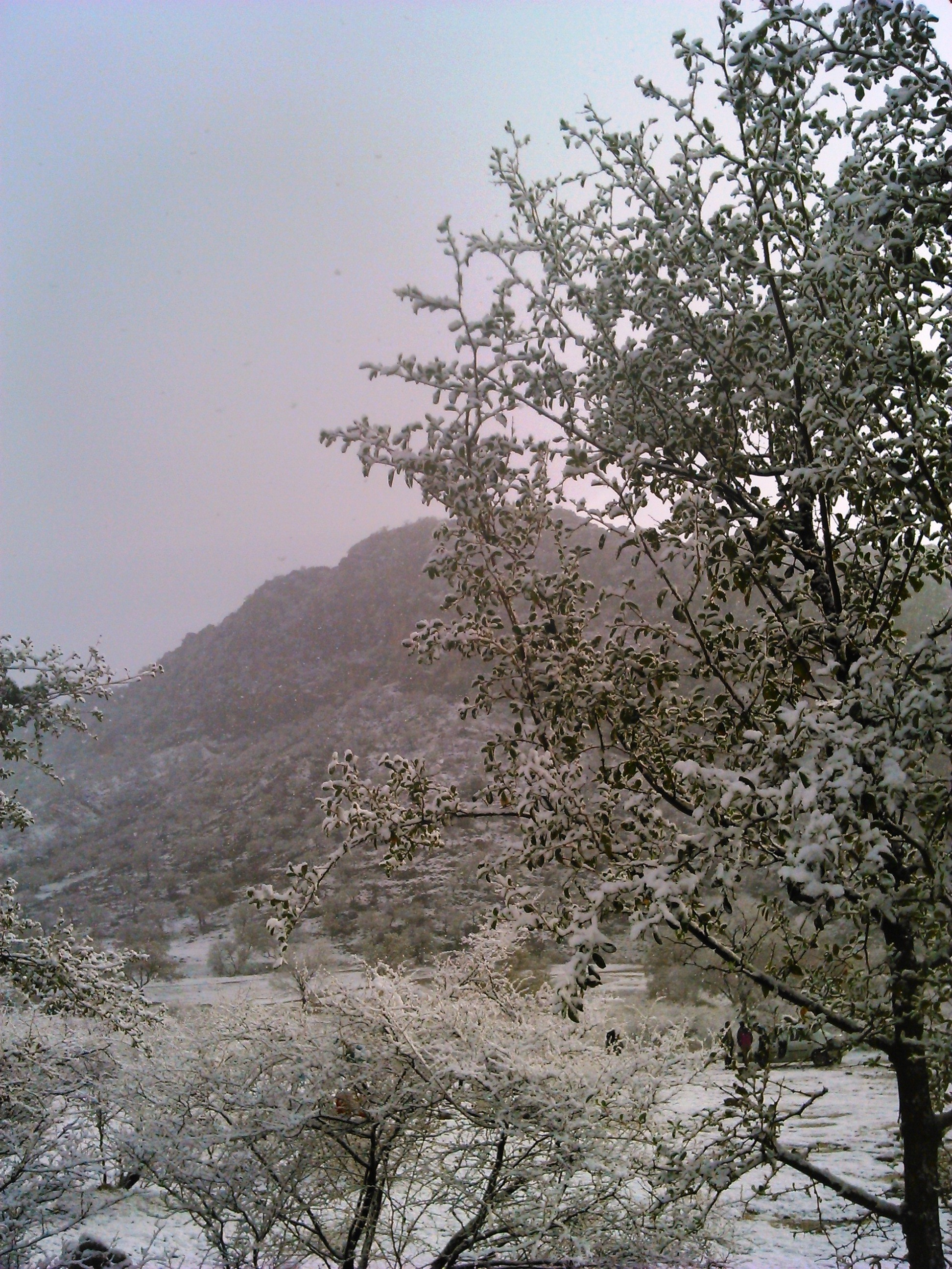 genavehL